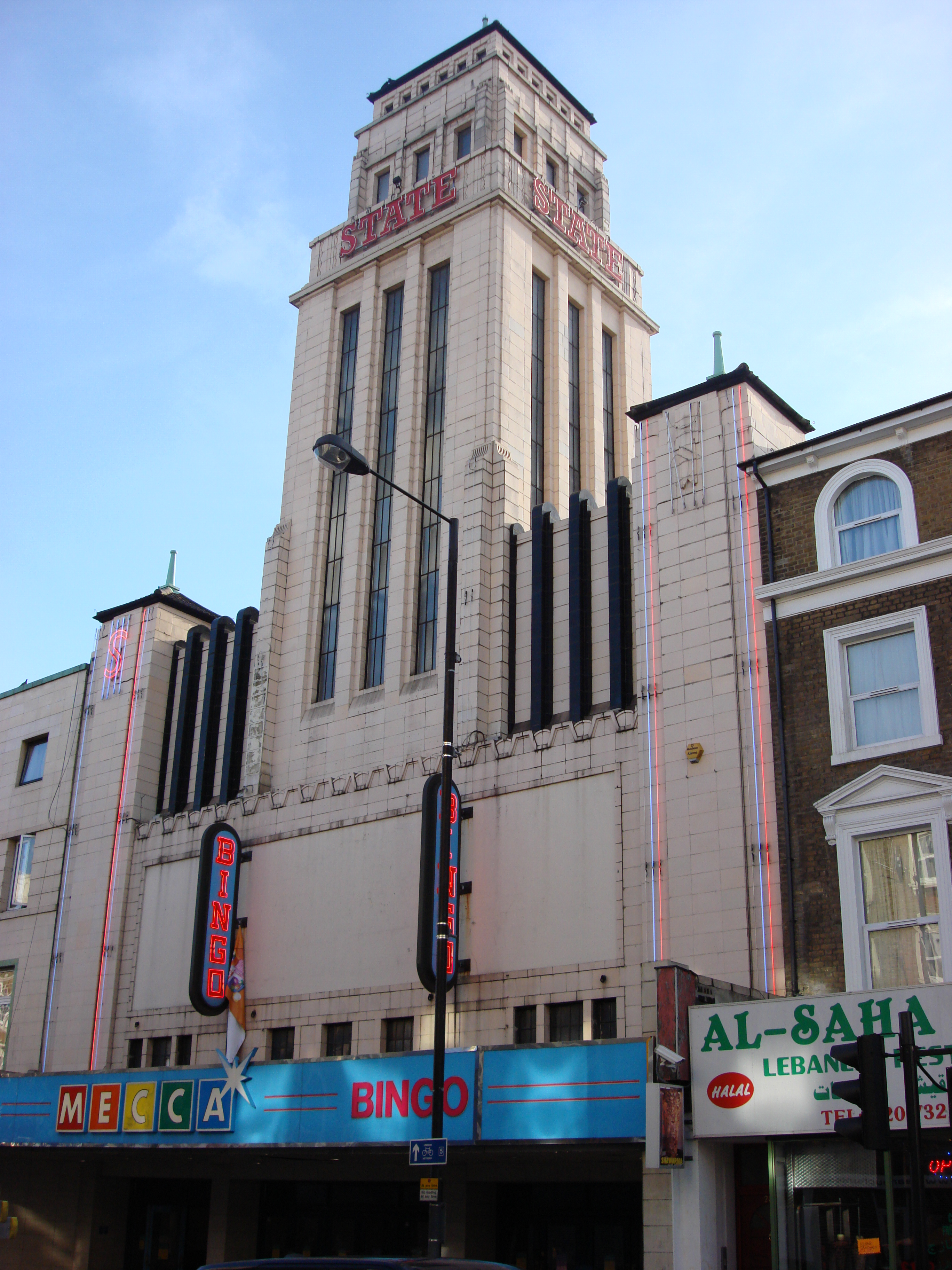 Entrance to the former Gaumont State Cinema Kilburn, now Mecca Bingo